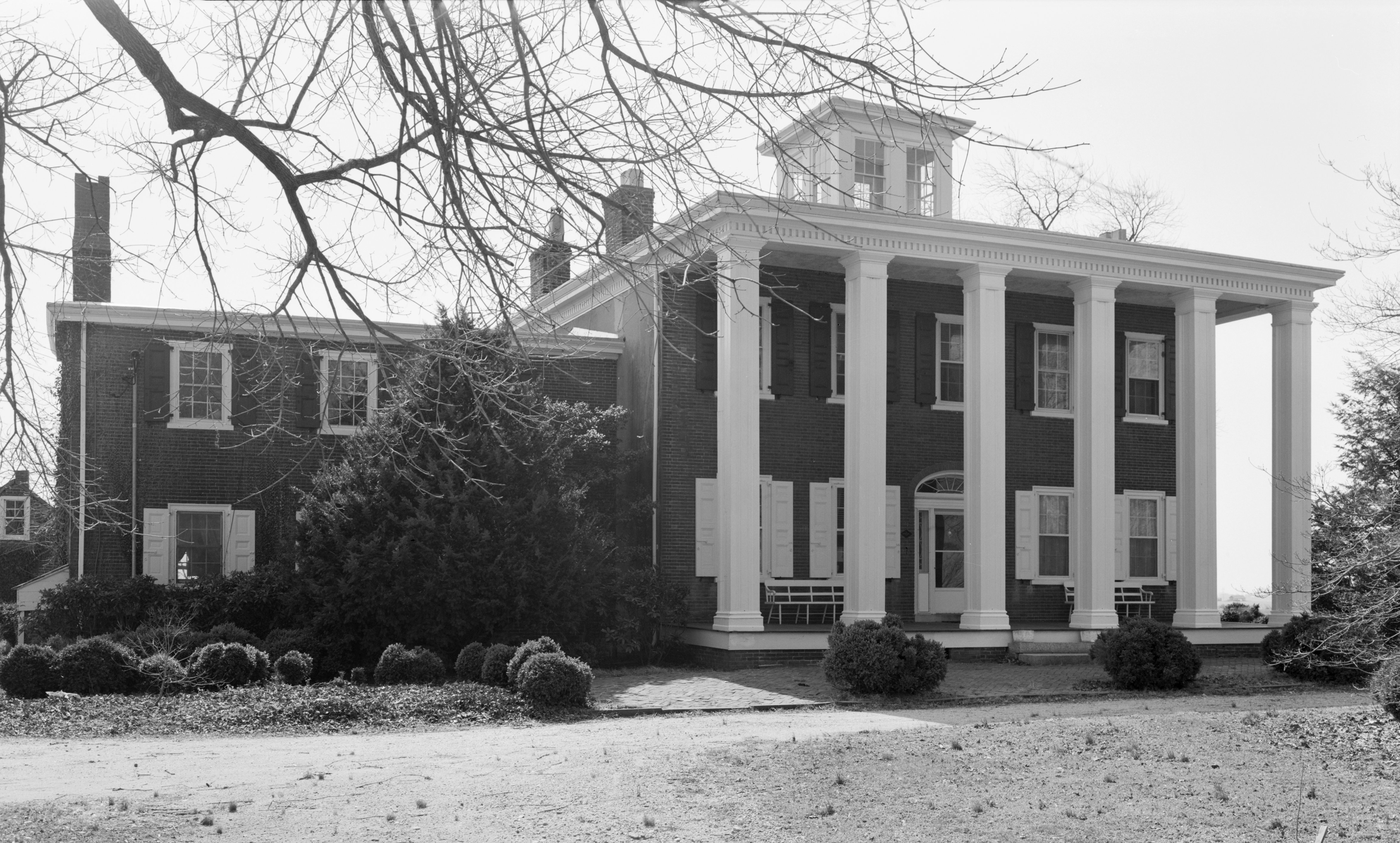 VIEW SOUTHWEST SHOWING NORTH (FRONT) ELEVATION - Cochran Grange, Main House, U.S. Route 301, West of Route 71, Middletown, New Castle County, DE